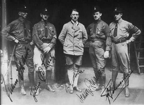 Adolf Hitler, surrounded by his personal bodyguards, the socalled Stabswache (left to right): Julius Schaub, Julius Schreck, Adolf Hitler, Hans Georg Maurer, Edmund Schneider.